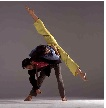 Chrish Nash and Jullian Therrien in Rough Air